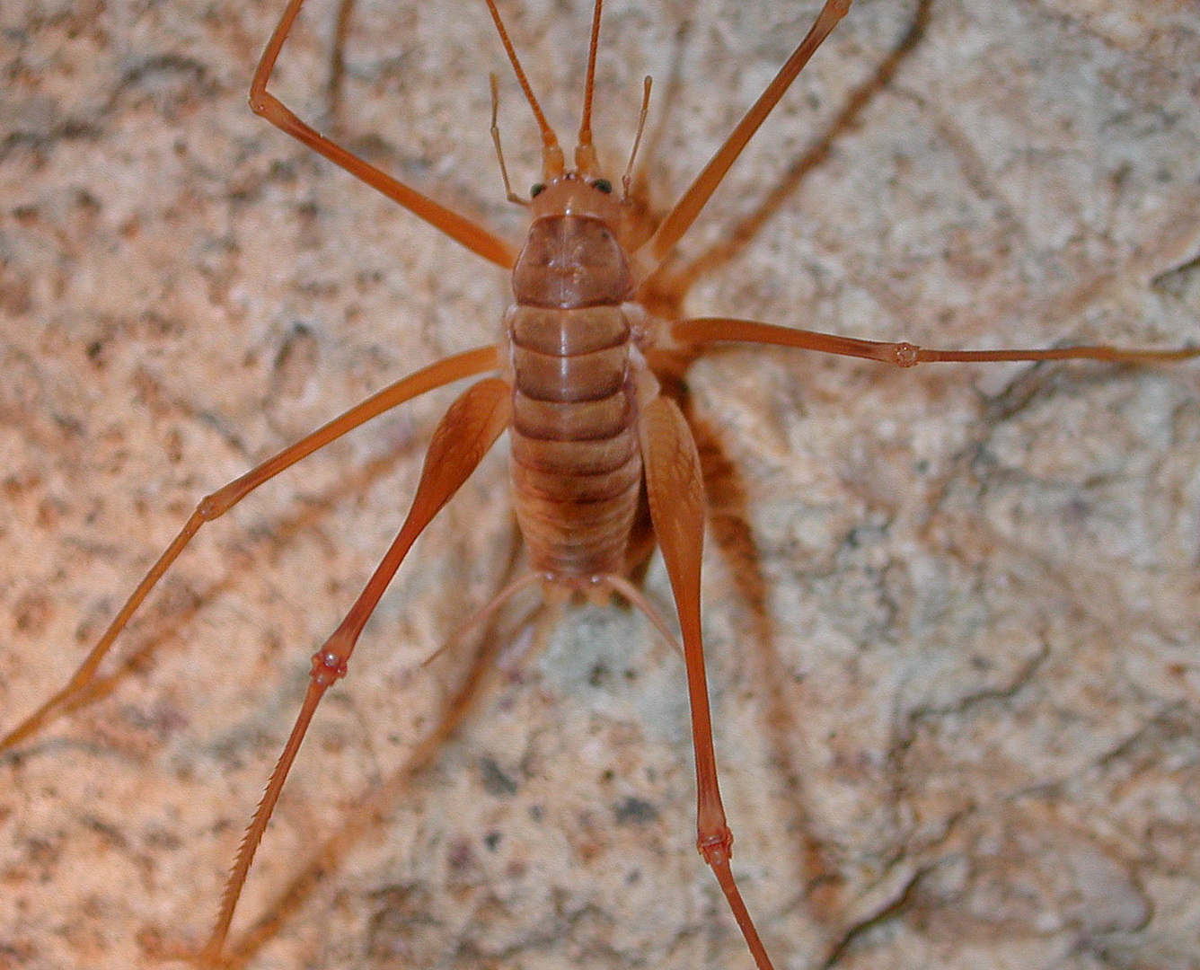 Marines de Siagne cave on Siagnole